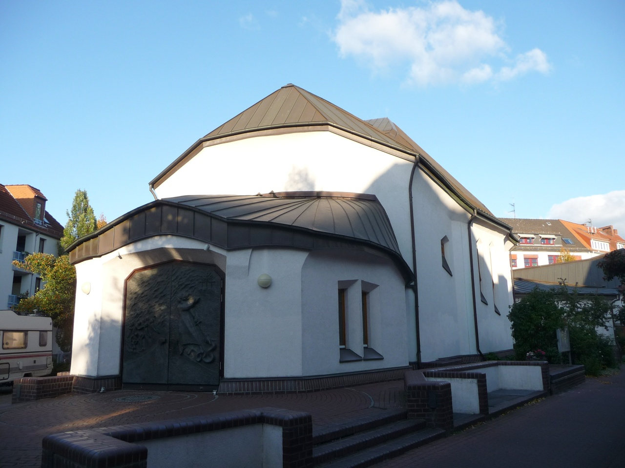 Michael-Church in Bremen-Ostertor